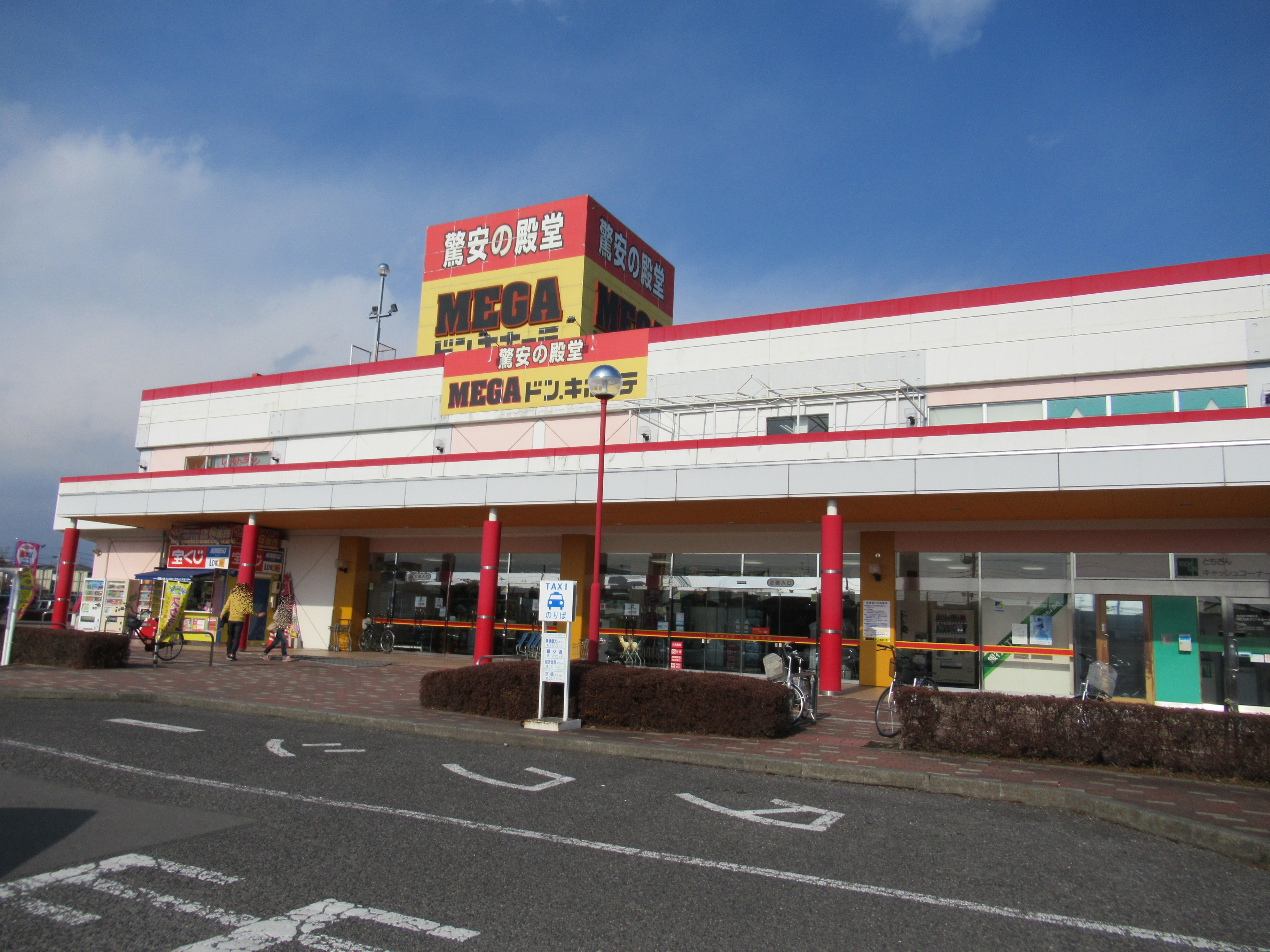 Shot on January 21, 2018